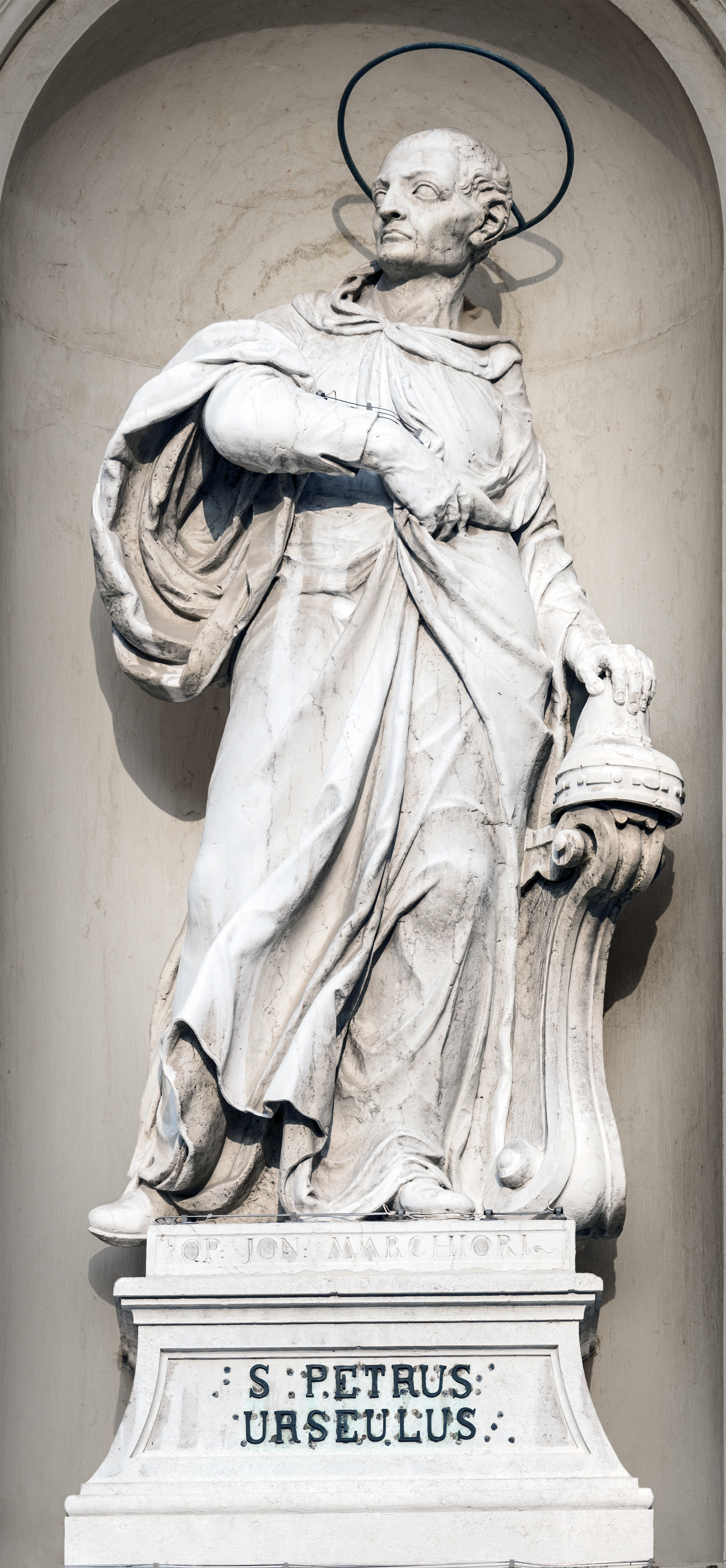 Church of San Rocco in Venice - Facade - Statue of Saint Peter Orseolo doge of Venice from 976 until 978 by Giovanni Marchiori.